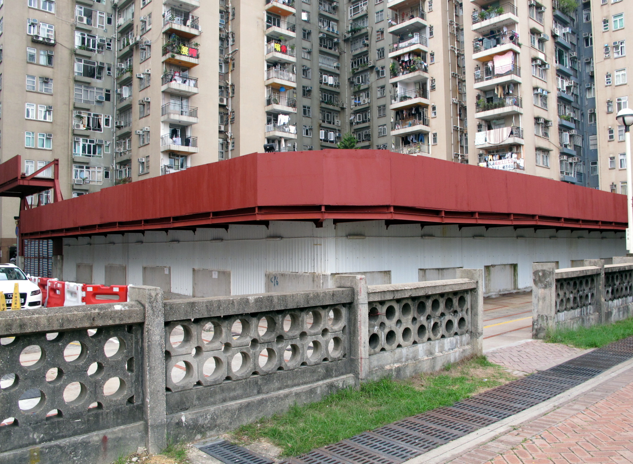 Mei Foo Sun Chuen Construction site